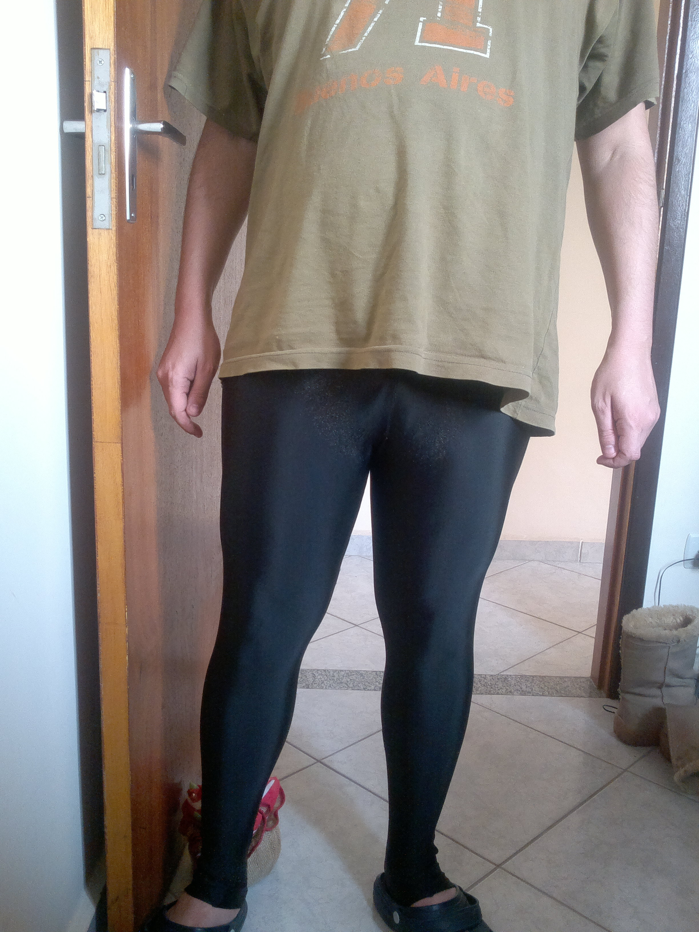 lycra leggings ms1